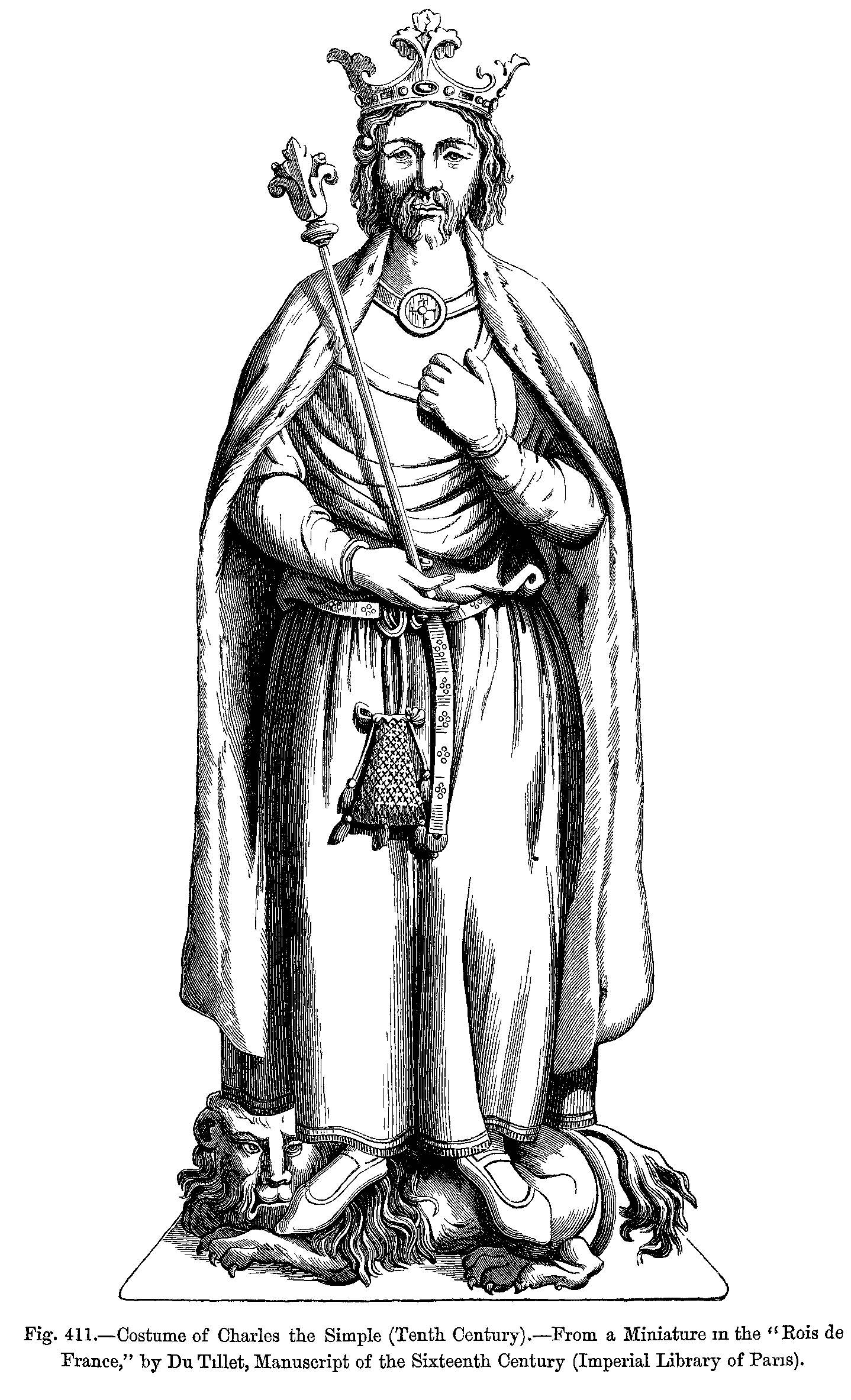 Charles the Simple, King of France.